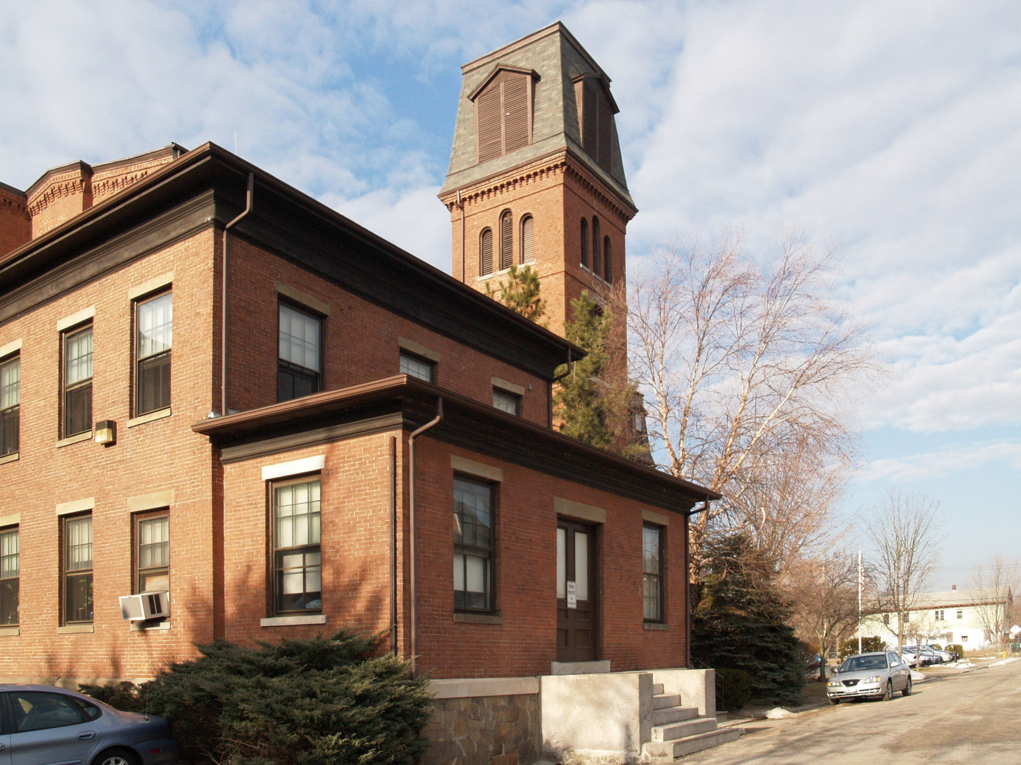 Hebronville Mill. Attleborough, Massachusetts